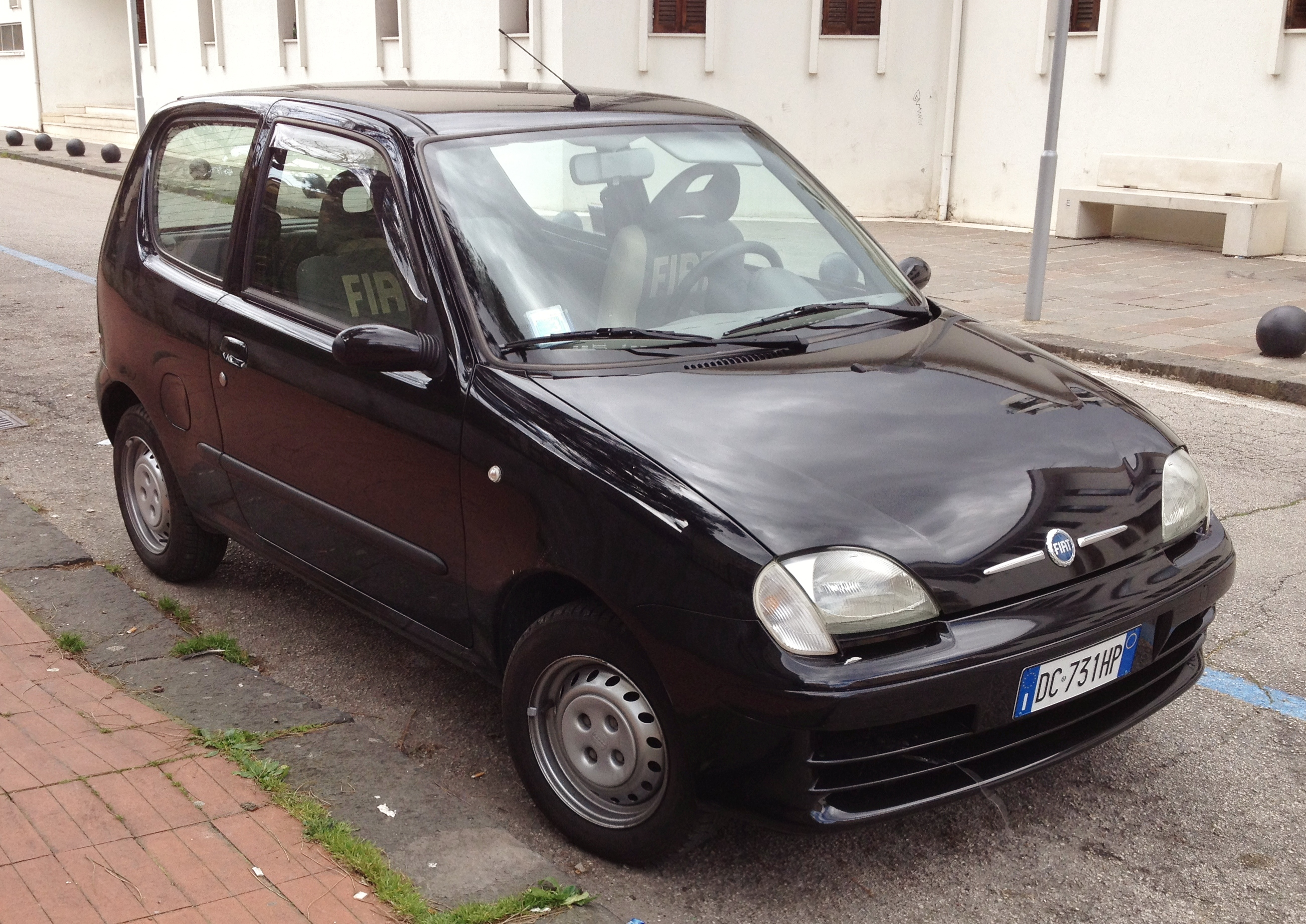 Fiat Seicento black